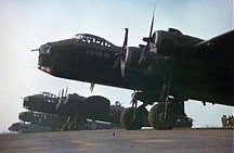 Stirling heavy bombers on the tarmac at RAF Oakington